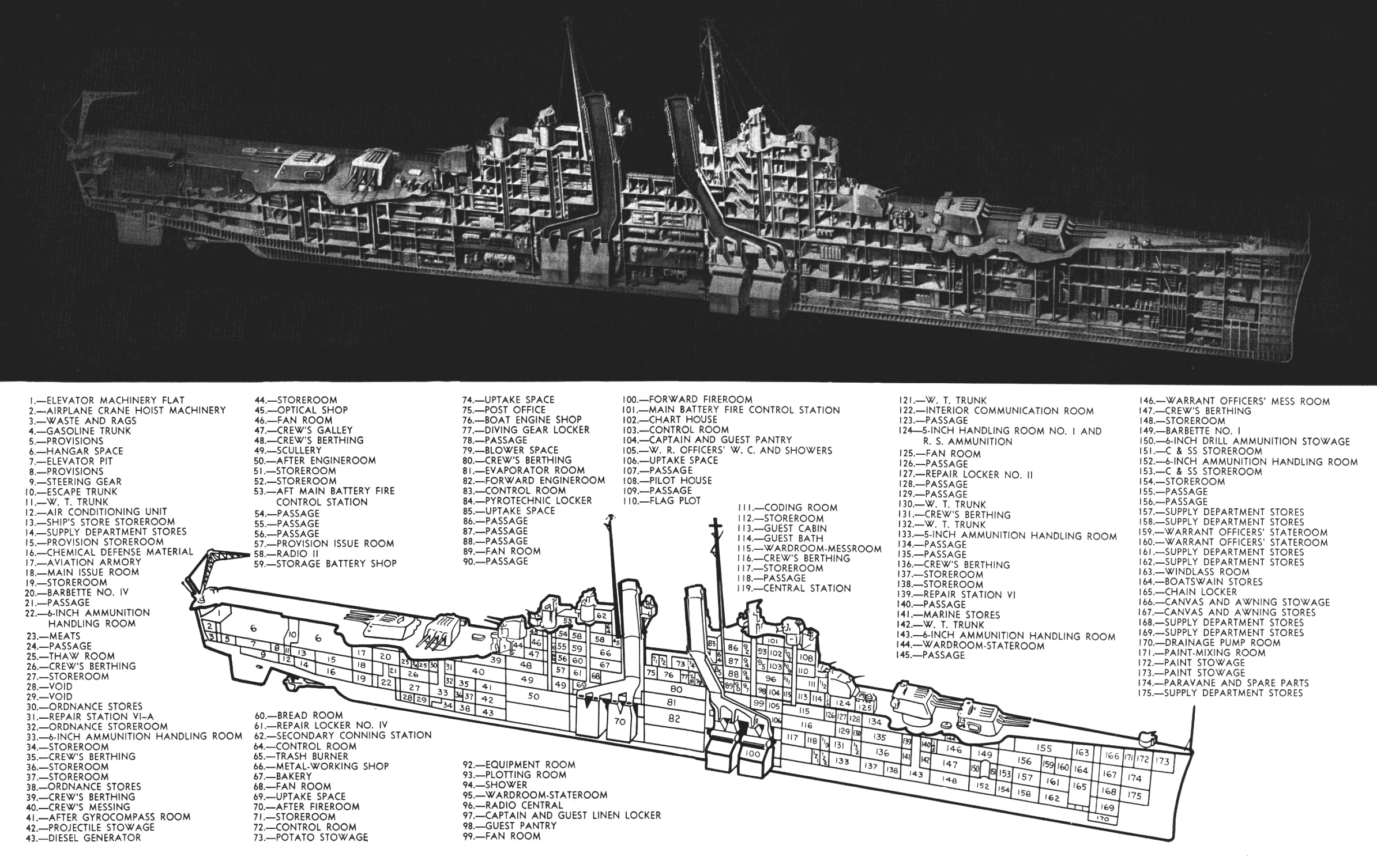 Technical drawing of a U.S. Navy cruiser. Although described as a "typical cruiser" by ALL HANDS in 1958, the cruiser depicted is a Cleveland-class light cruiser, designed in 1938-40.